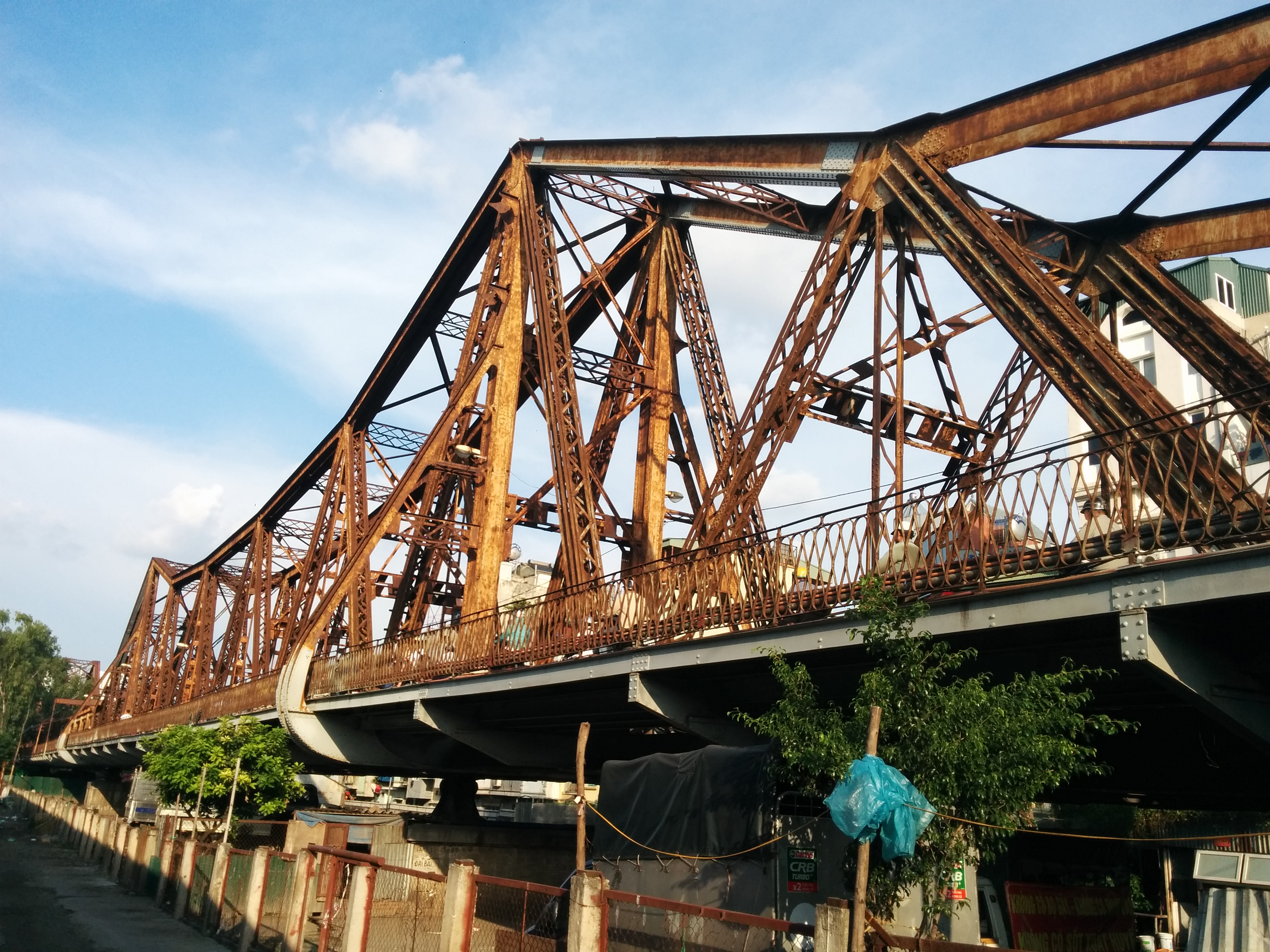 Hanoi